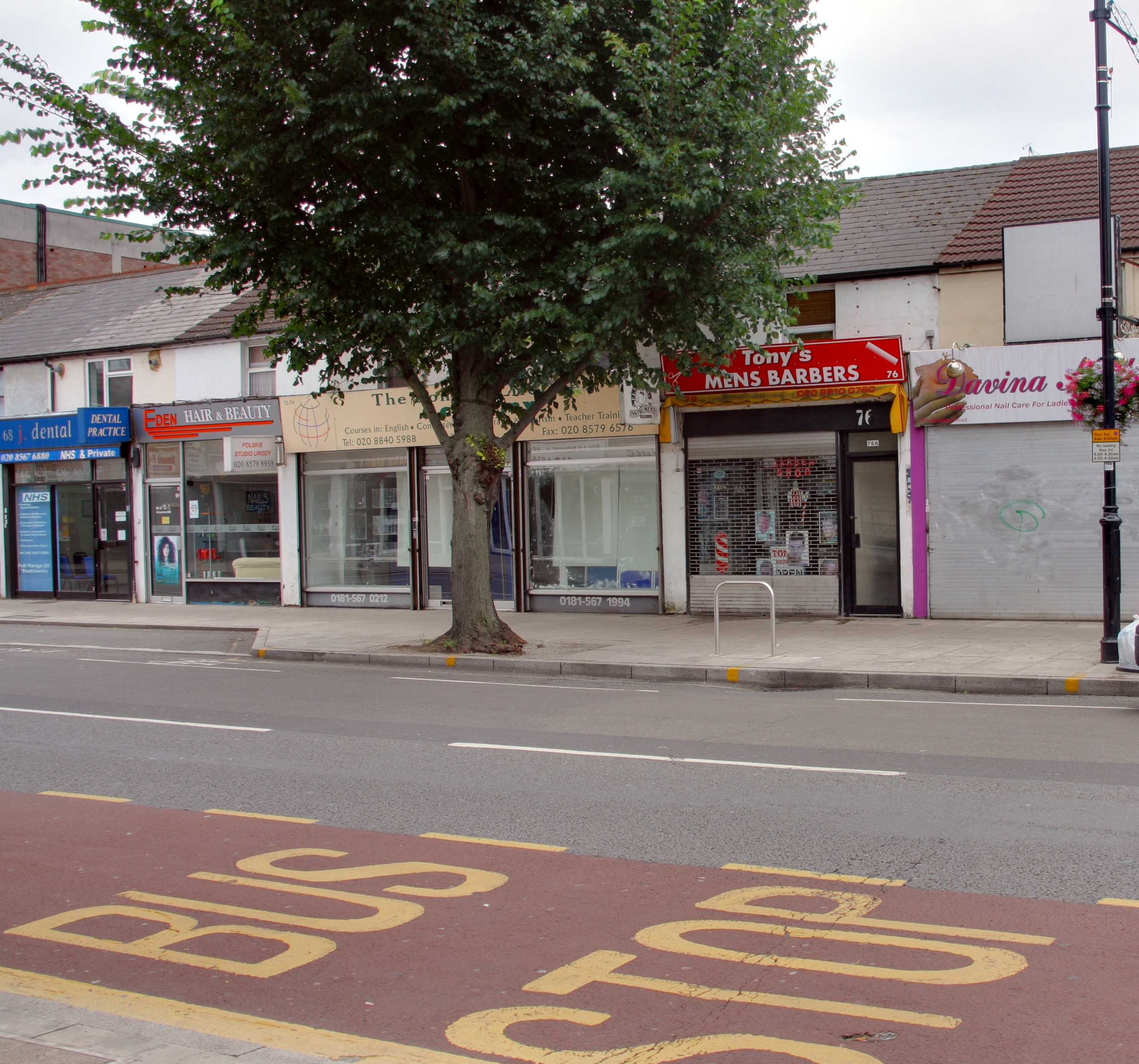 Site of Jim Marshall's first shop at 76 Uxbridge Road, Hanwell, W7. Now a mens barbers.